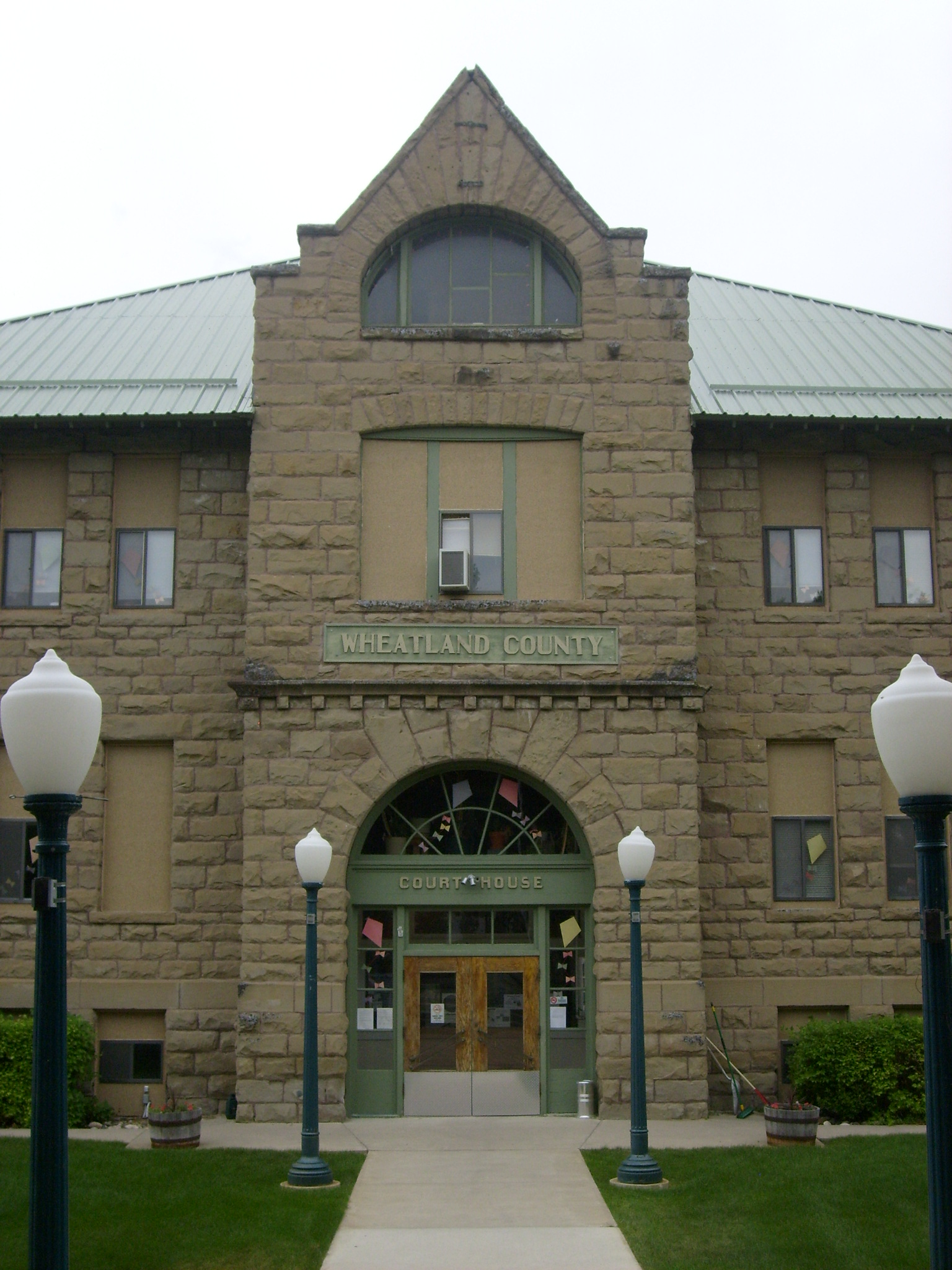 Harlowton MT Wheatland County courthouse